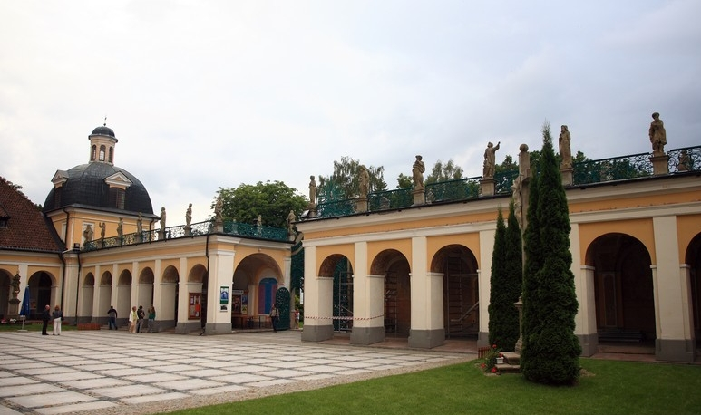 Święta Lipka, (Poland, Warminian-Masurian Voivodship), view of sancturay of St. Mary